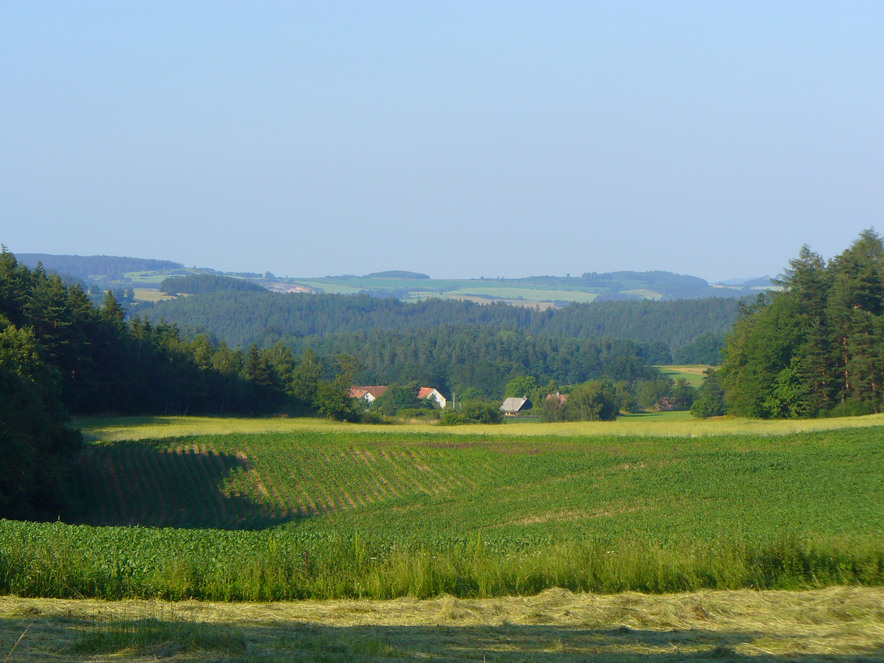 Viev to Řenkov from Březí